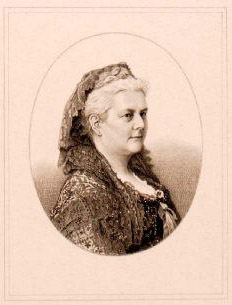 French pianist and teacher Louise-Aglaé Massart (1827-1887)